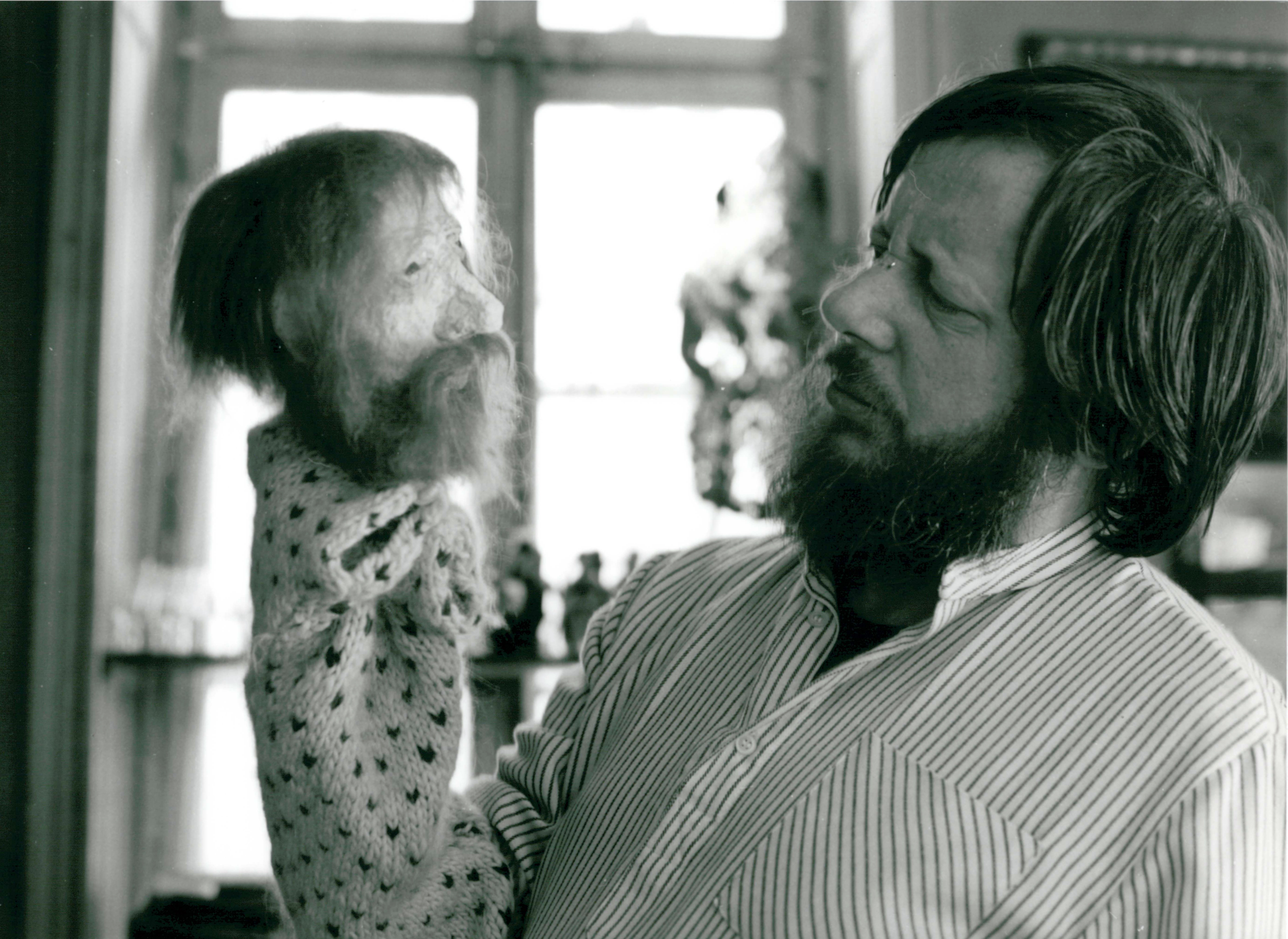 German-Danish artist Holger Hattesen (Flensburg 1937-1993) with an self made alter ego.